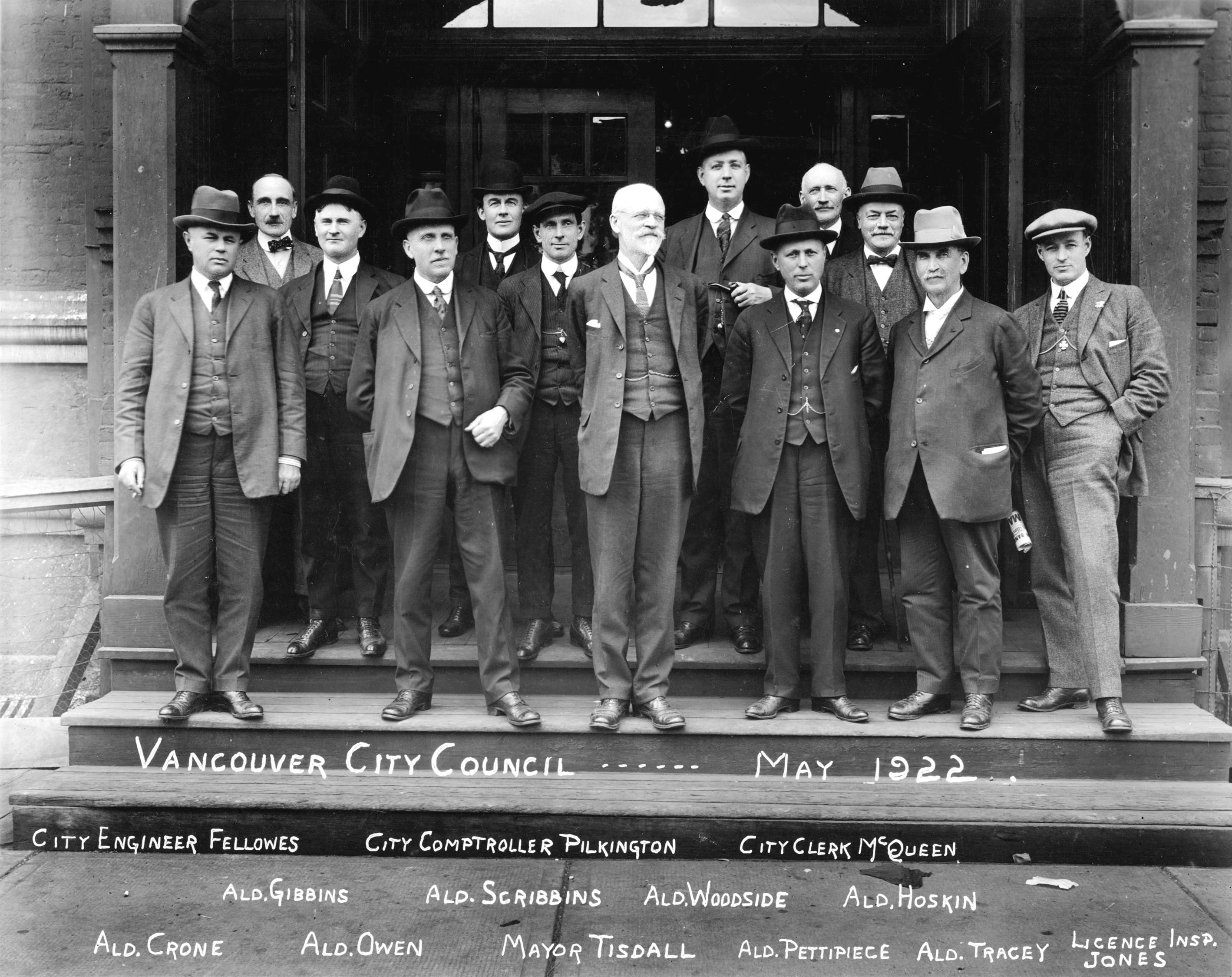 Vancouver City Council 1922. Group portrait. Men identified (left to right): Back row: City Engineer Fellows, City Comptroller Pilkington, City Clerk McQueen. Middle row: Ald. Gibbons, Ald. Scribbins, Ald. Woodside, Ald. Hoskin. Front row: Ald. Crone, Ald. Owen, Mayor Tisdall, Ald. Pettipiece, Ald. Tracey, Licence Insp. Jones